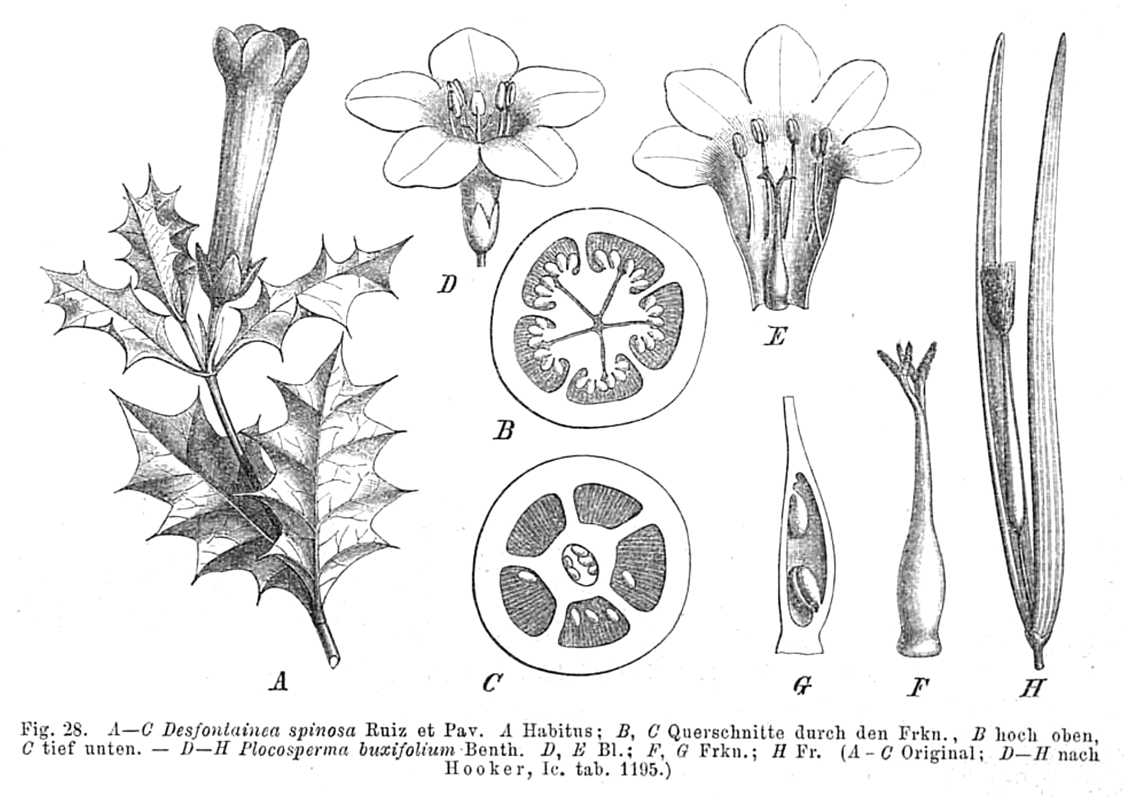 Desfontainia/Plocosperma spp. A-C. Desfontainia spinosa: A. Habitus. B/C. Ovary cross sec.: B. Upper part C. Lower part. D-H. Plocosperma buxifolium: D/E. Flower. F/G. Ovary. H. Fruit.